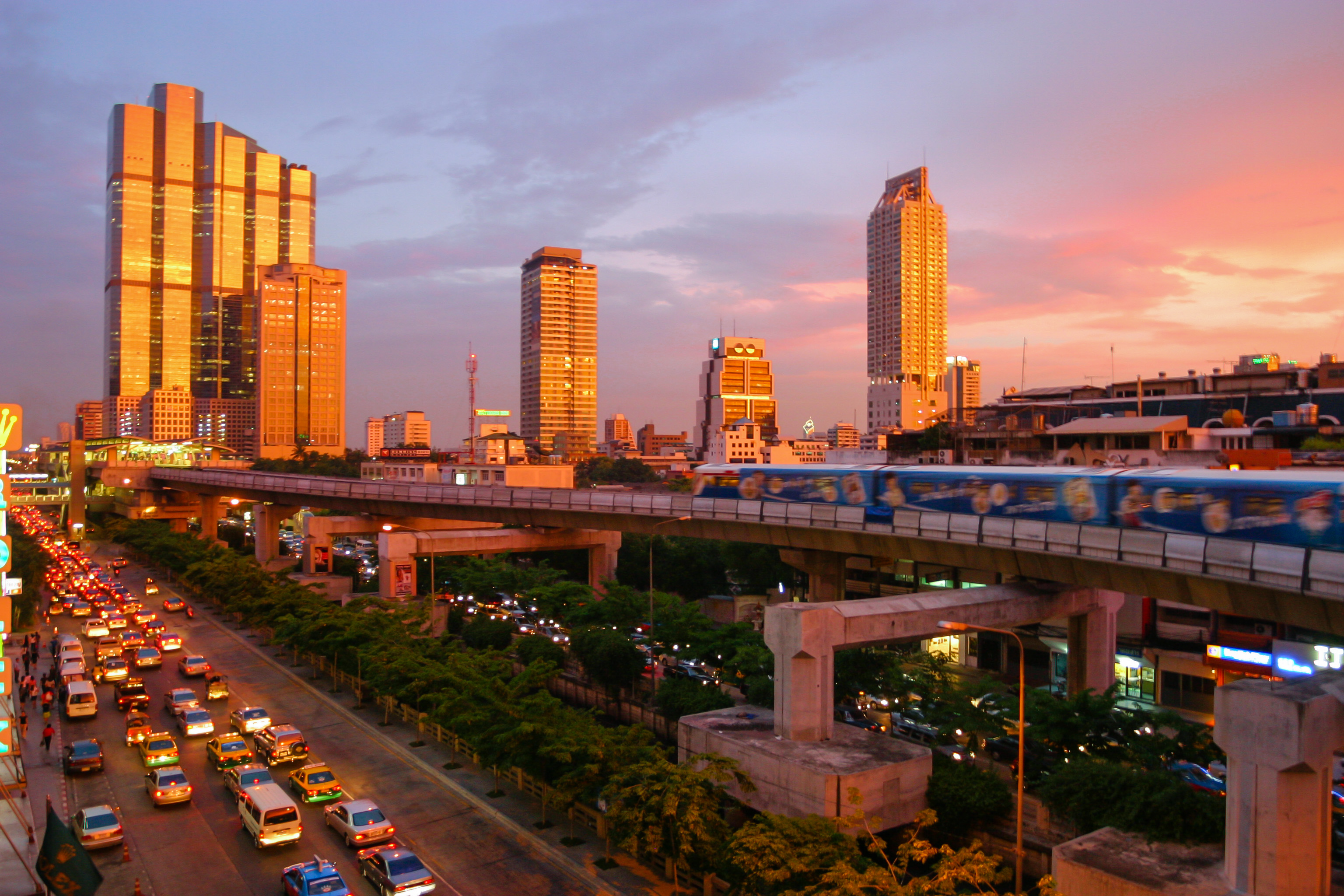 A spectacular sunset in Bangkok, showing the skytrain and modern skyline down Thanon Naradhiwas Rajanagarindra, taken from the corner of Thanon Silom, with the Empire Tower and the Chong Nonsi BTS Station at the left side.